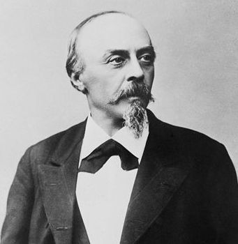 Portrait of conductor and pianist Hans von Bülow (1830-1894).